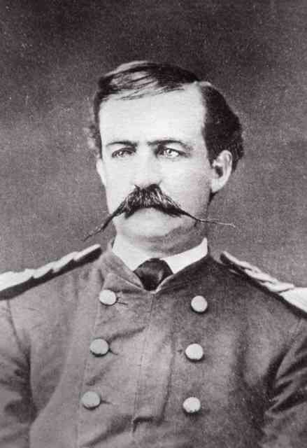 Lt. Gustavus Cheyney Doane, Yellowstone Explorer, 1870